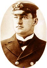 Henry Tingle Wilde, chief officer on RMS Titanic. Died in the sinking.